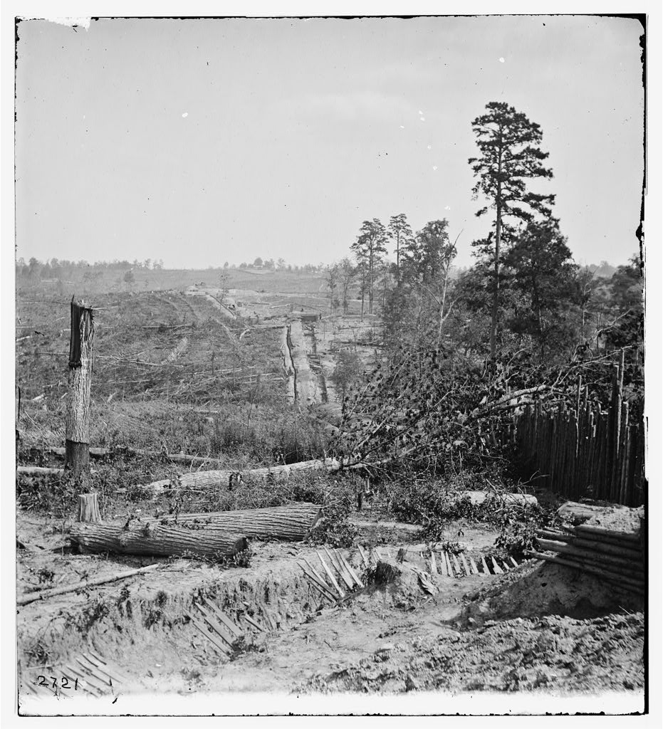 Part of the fortifications surrounding Atlanta, Georgia, in 1864 during the Civil war.